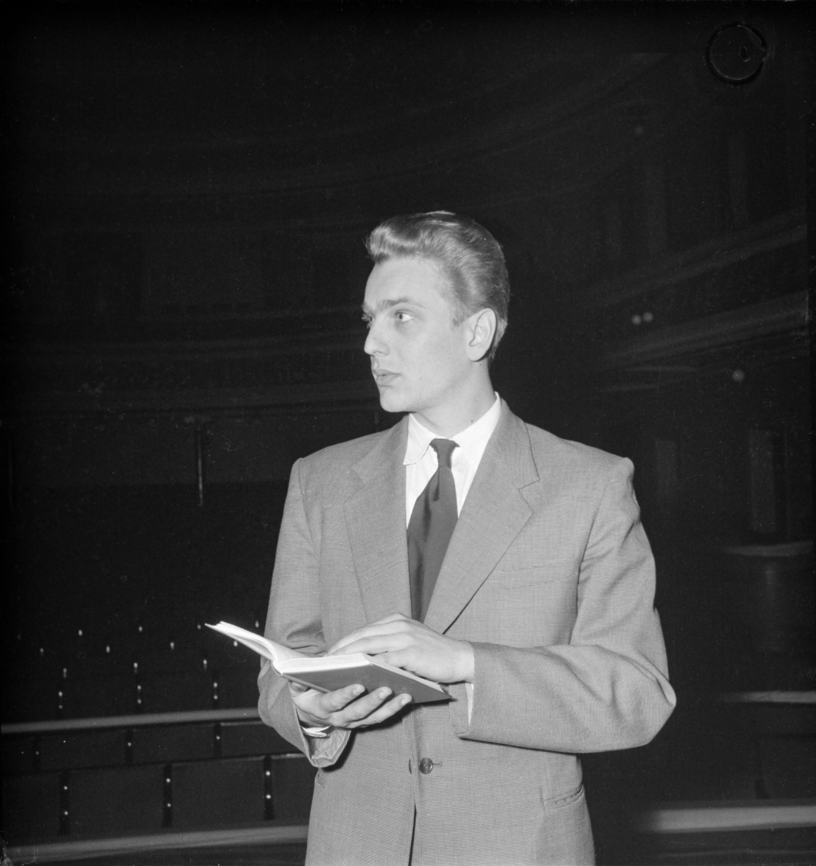 Photograph of the Finnish actor Martti Katajisto (1926–2000) at rehearsal of the play Hamlet at the National Theatre of Finland, in Helsinki.